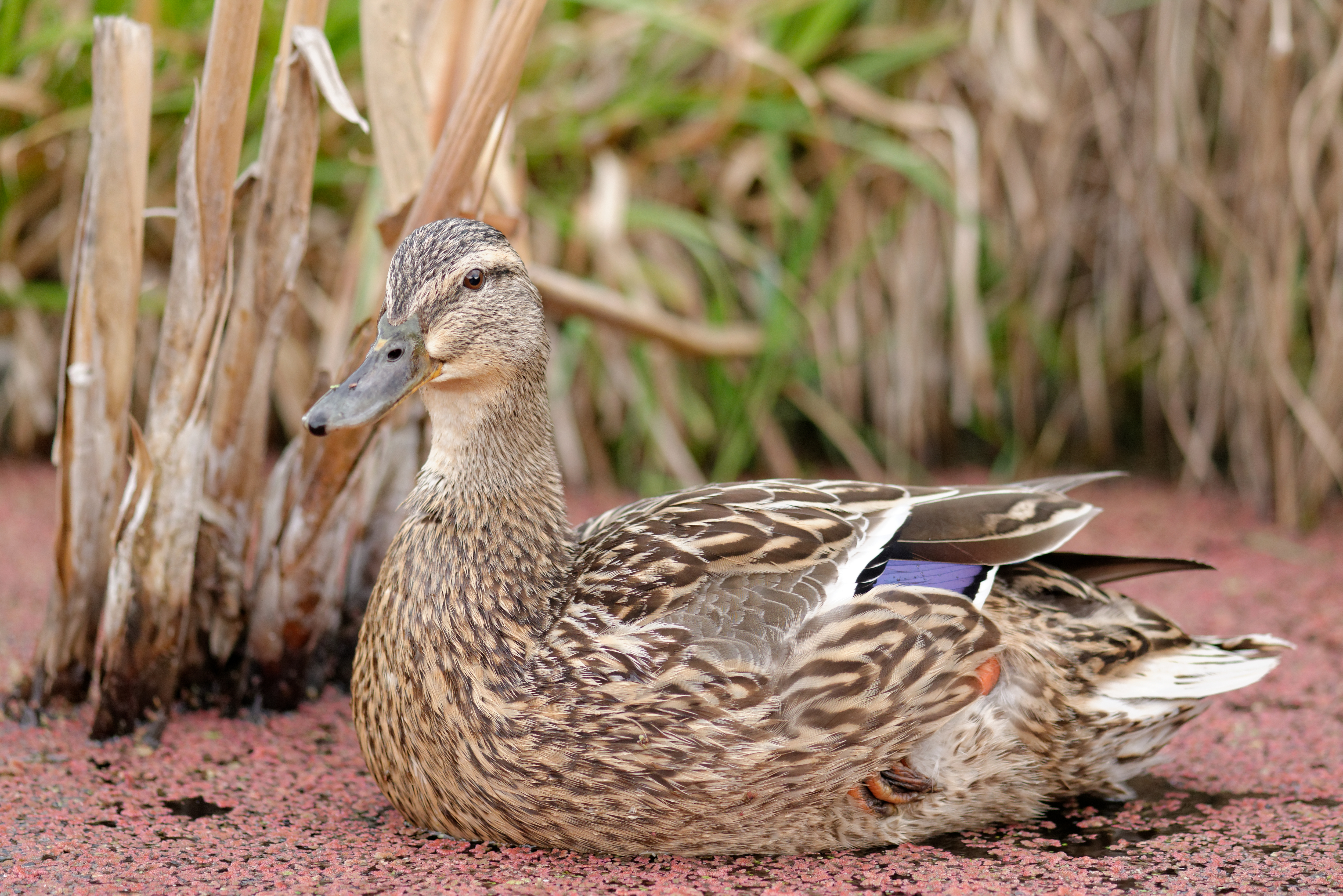 Mallard hen (Anas platyrhynchos) swimming in a pond, Jardin des Plantes, Paris.